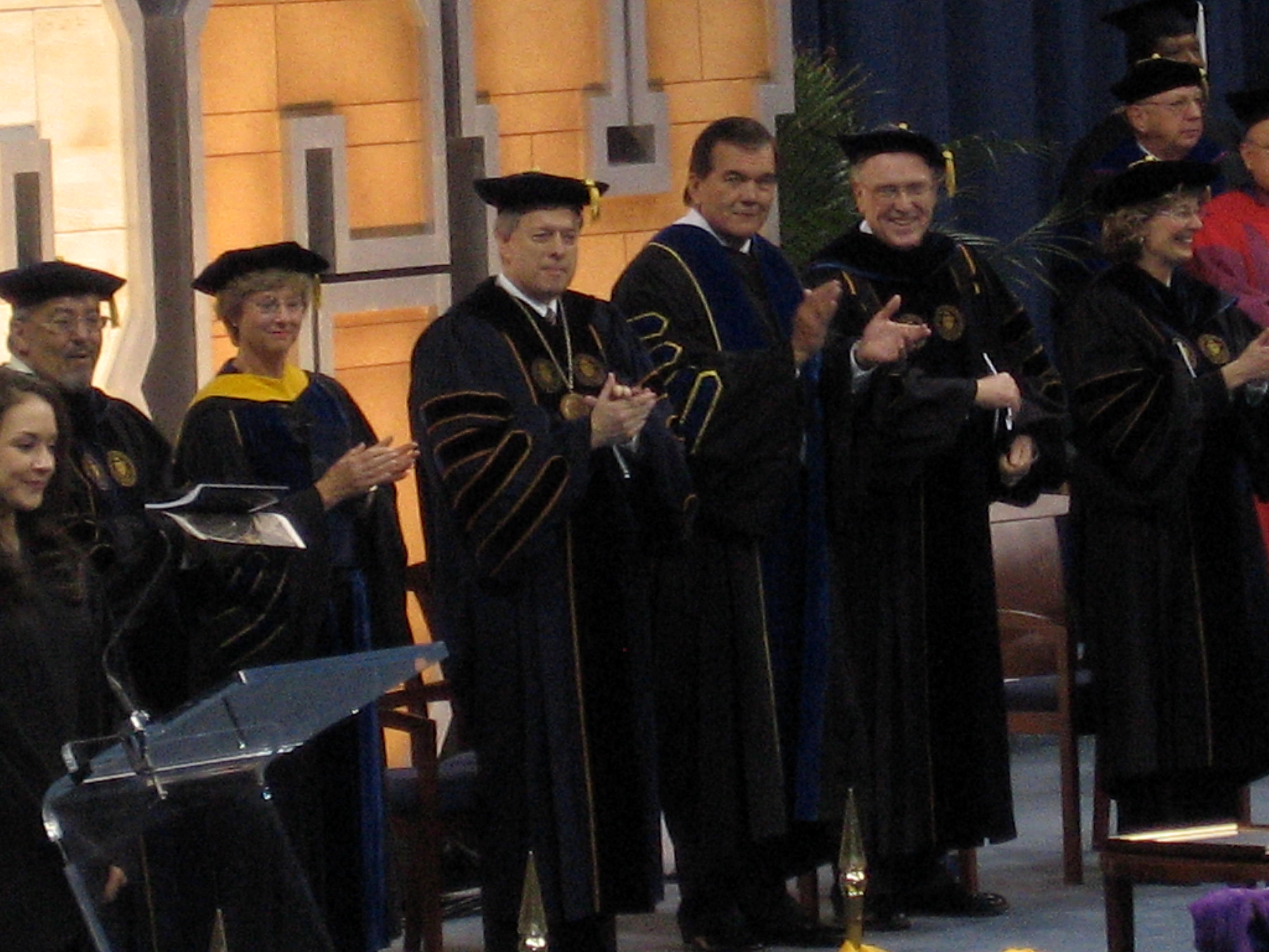 The platform party congratulates the Class of 2007. (From left: Jerry Cochran, Suzy Broadhurst, Chancellor Mark Nordenberg, Governor Tom Ridge, Provost Jim Maher, Jean Ferketish)